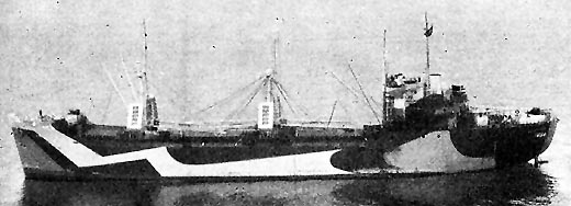 USS Alamosa (AK-156), date and location unknown. Her camouflage is Measure 32 Design 6AO.